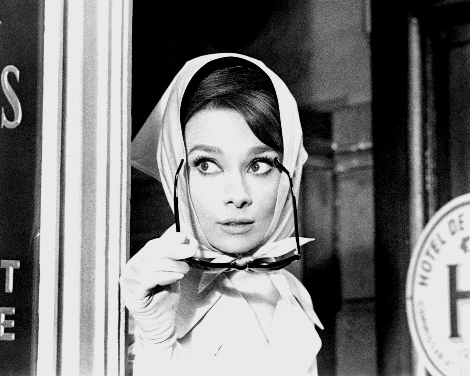 Audrey Hepburn publicity photo for the film Charade (1963)